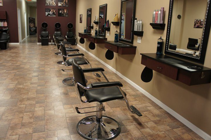 Hair salon styling floor.SAbeauti Professional Ladies Salon Dubai is one of the best beauty salon